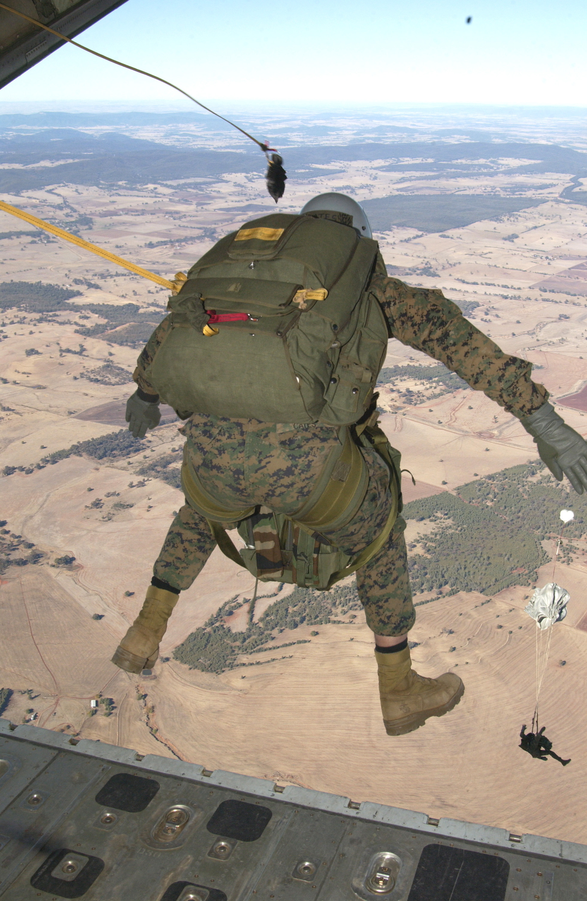 U.S. Marines in Nowra, located in New South Wales jumping off a C-130.